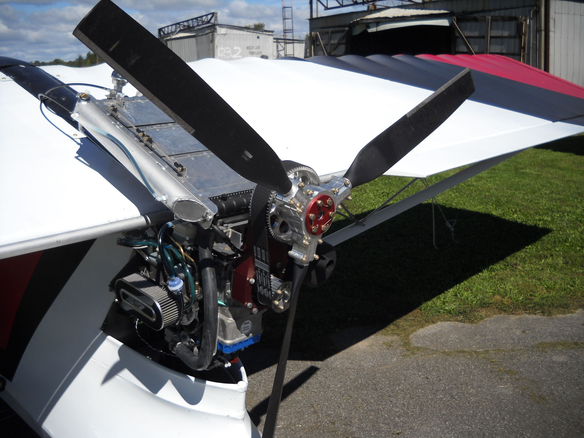 A Warp Drive Propeller mounted to a Rotax 582 two stroke aircraft engine on a Quad City Challenger II seen at the Carleton Place, Ontario, Canada, Fly-in.